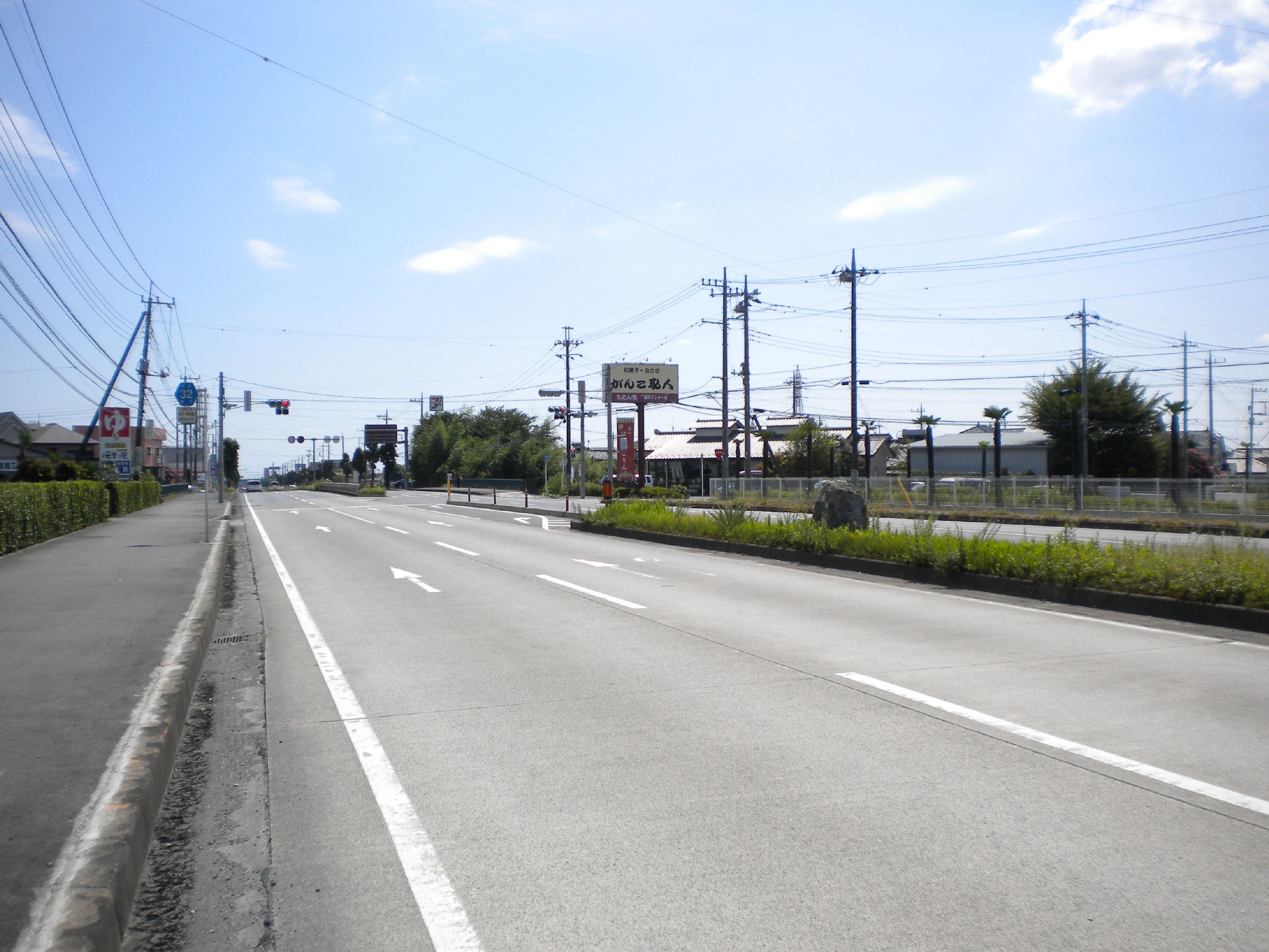 The Tochigi Prefectural Road Route 32 in Nonakamachi, Tochigi City